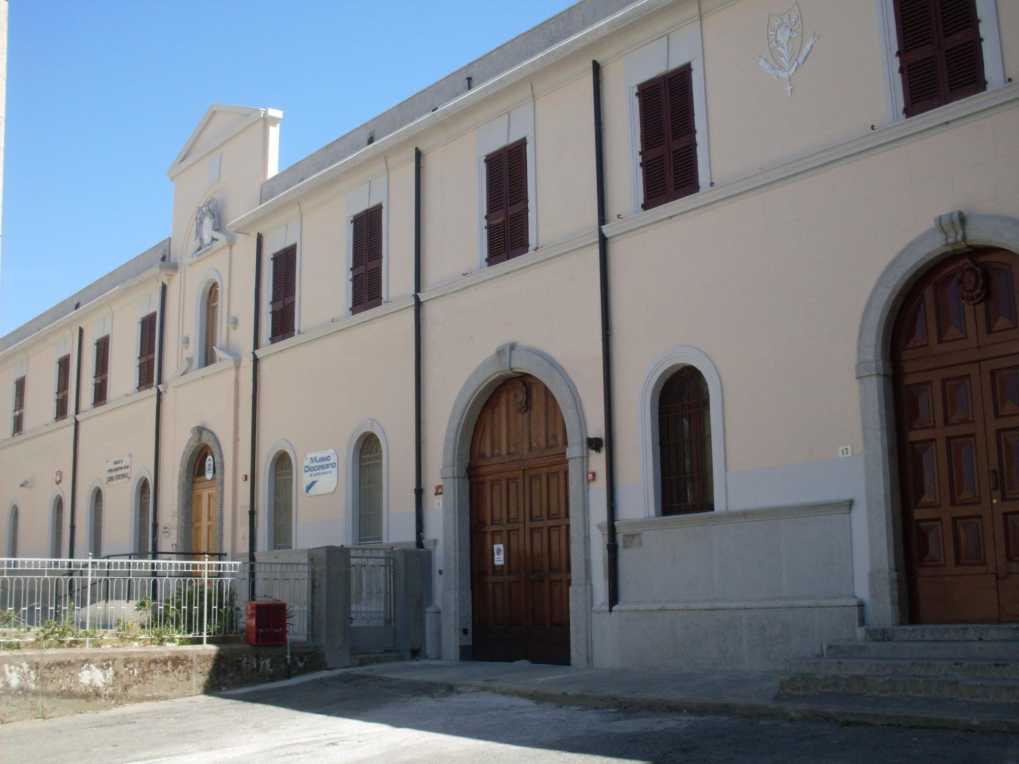 Episcopio